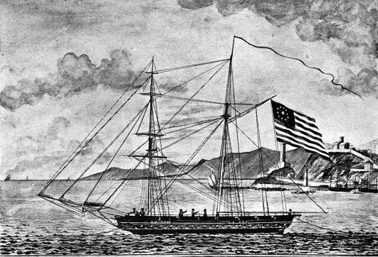 Sketch by Benjamin Crowninshield Jr in 1817 of the first luxury yacht from America to cross the Atlantic in Genoa Italy. It was owned by his cousin once removed George Crowninshield Jr. (1766–1817) of Salem Massachusetts.